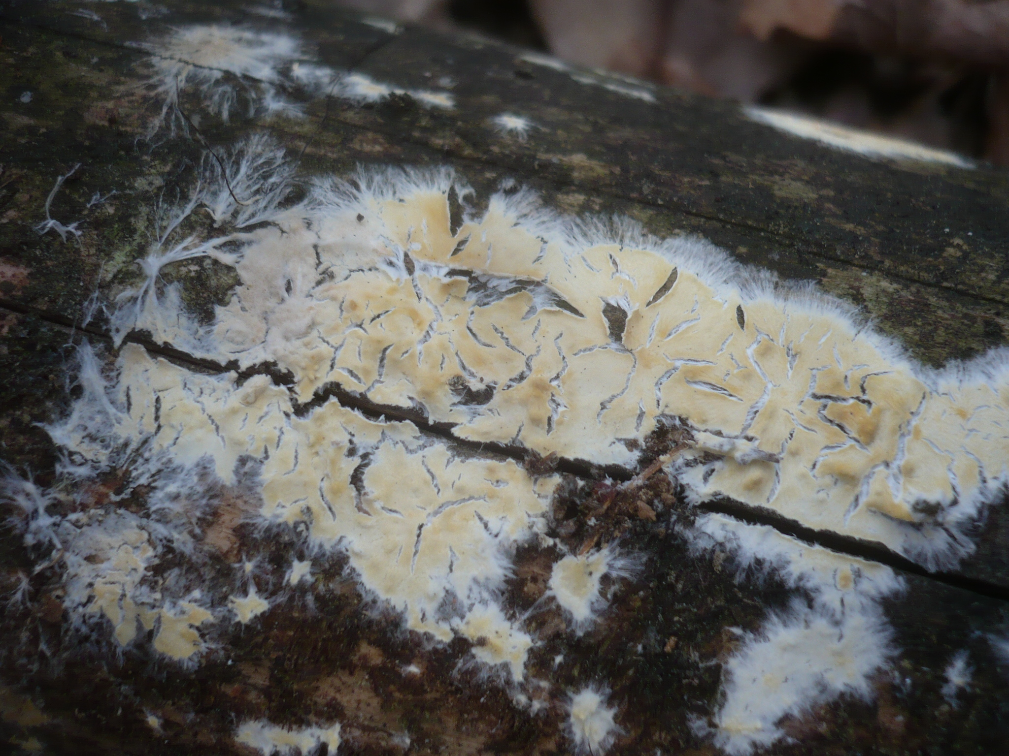 Vesiculomyces citrinus (Pers.) E. Hagstr. Image location: Badersdorf, Bezirk Oberwart, Burgenland, Austria Recognized by sight: on Pinus sylvestris Based on microscopic features For more information about this, see the observation page at Mushroom Observer.